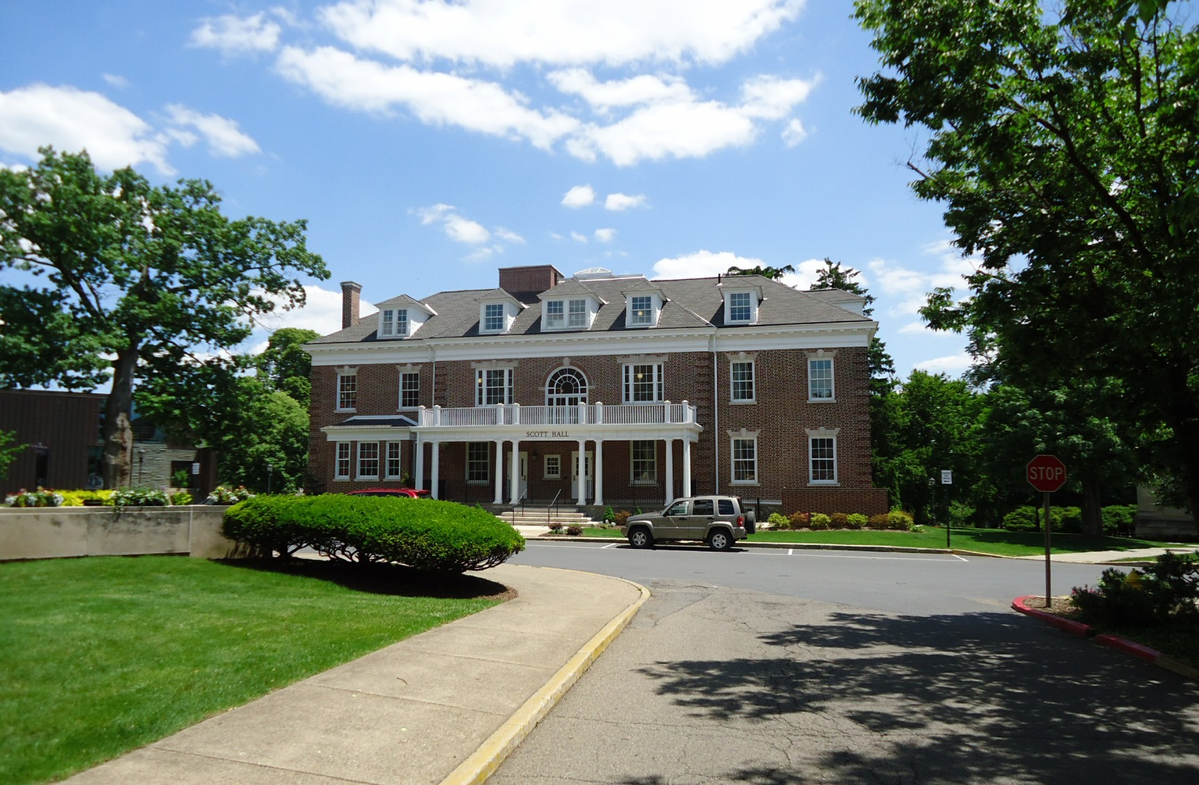 A photo from a campus tour of Lafayette College in Easton, Pennsylvania. Lafayette is a liberal arts college on a hill near the Delaware River.